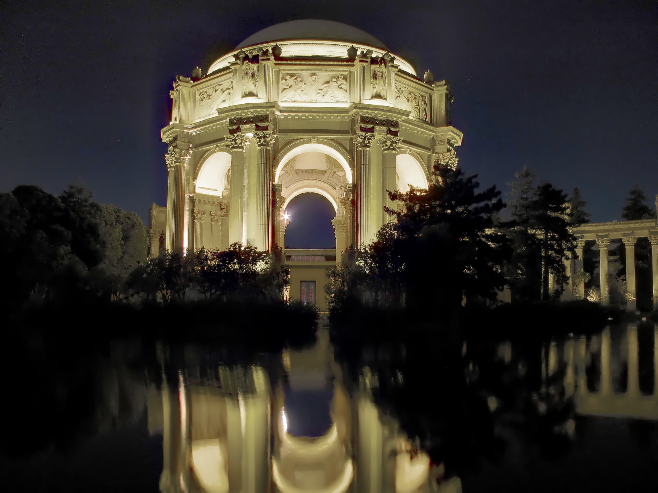 Palace of Fine Arts at night, January 30, 2010. By Dan Martin.